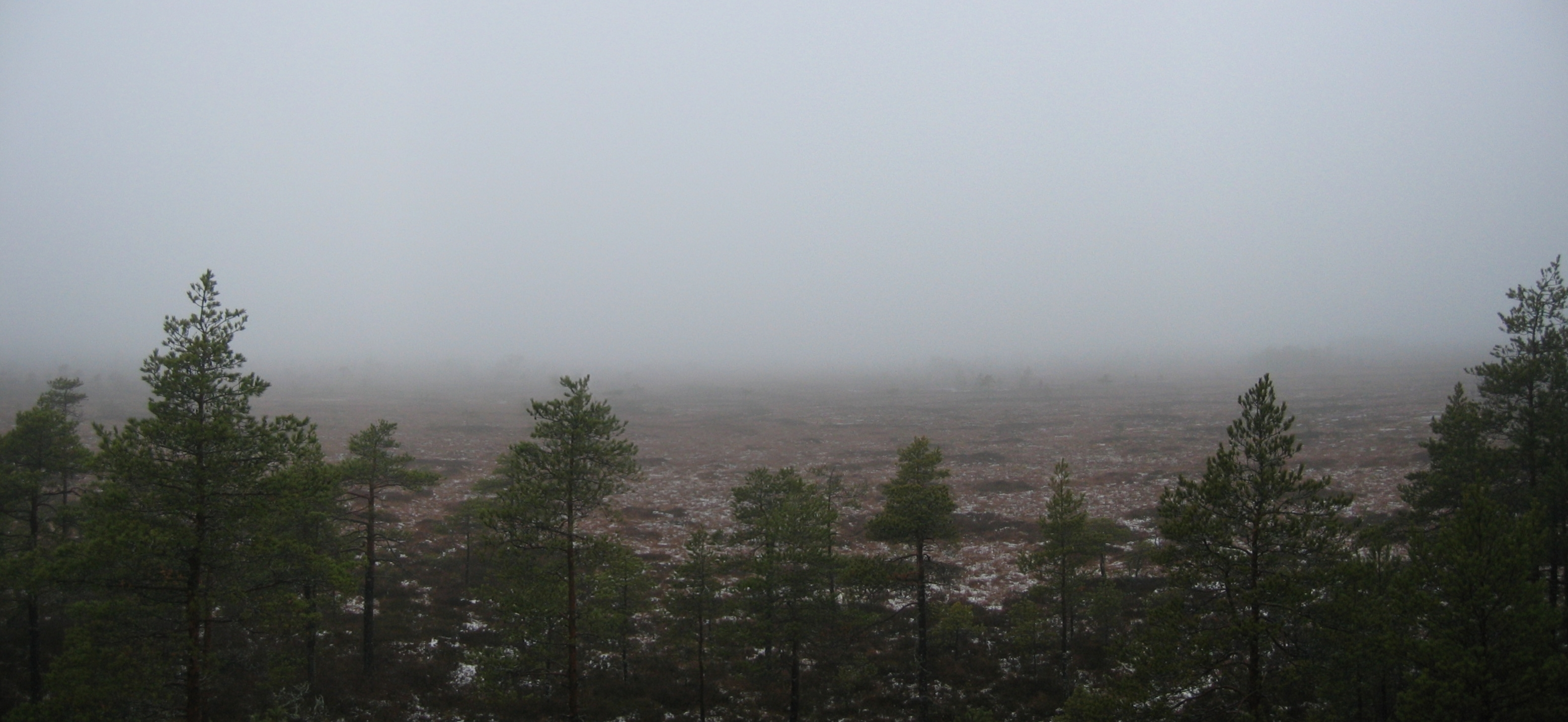 A panorama image of Vajosuo in Kurjenrahka National Park, Finland. Image taken from the nature tower at the south end of the bog.